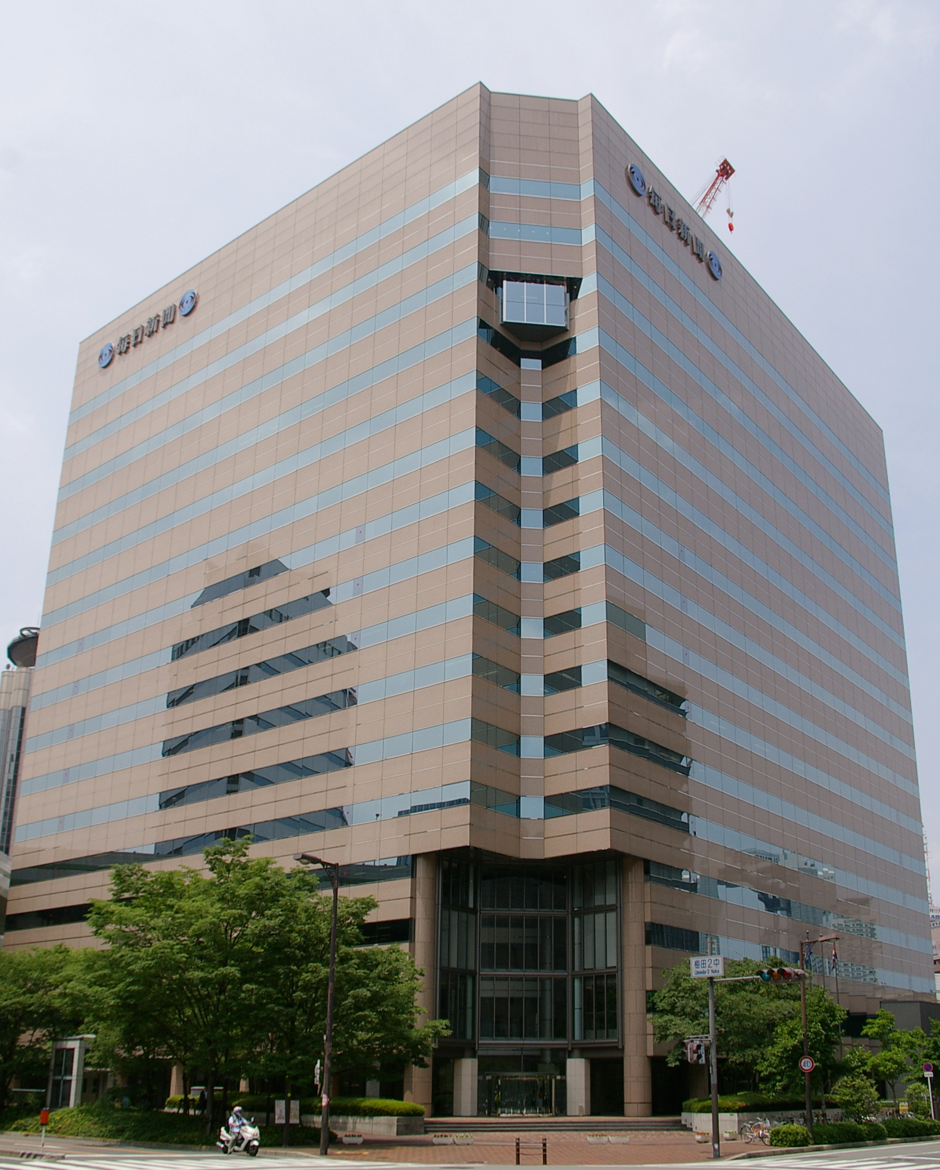 Photograph of Mainichi Shimbun Osaka Office Building in Kita-ku, Osaka, Osaka Prefecture, Japan.